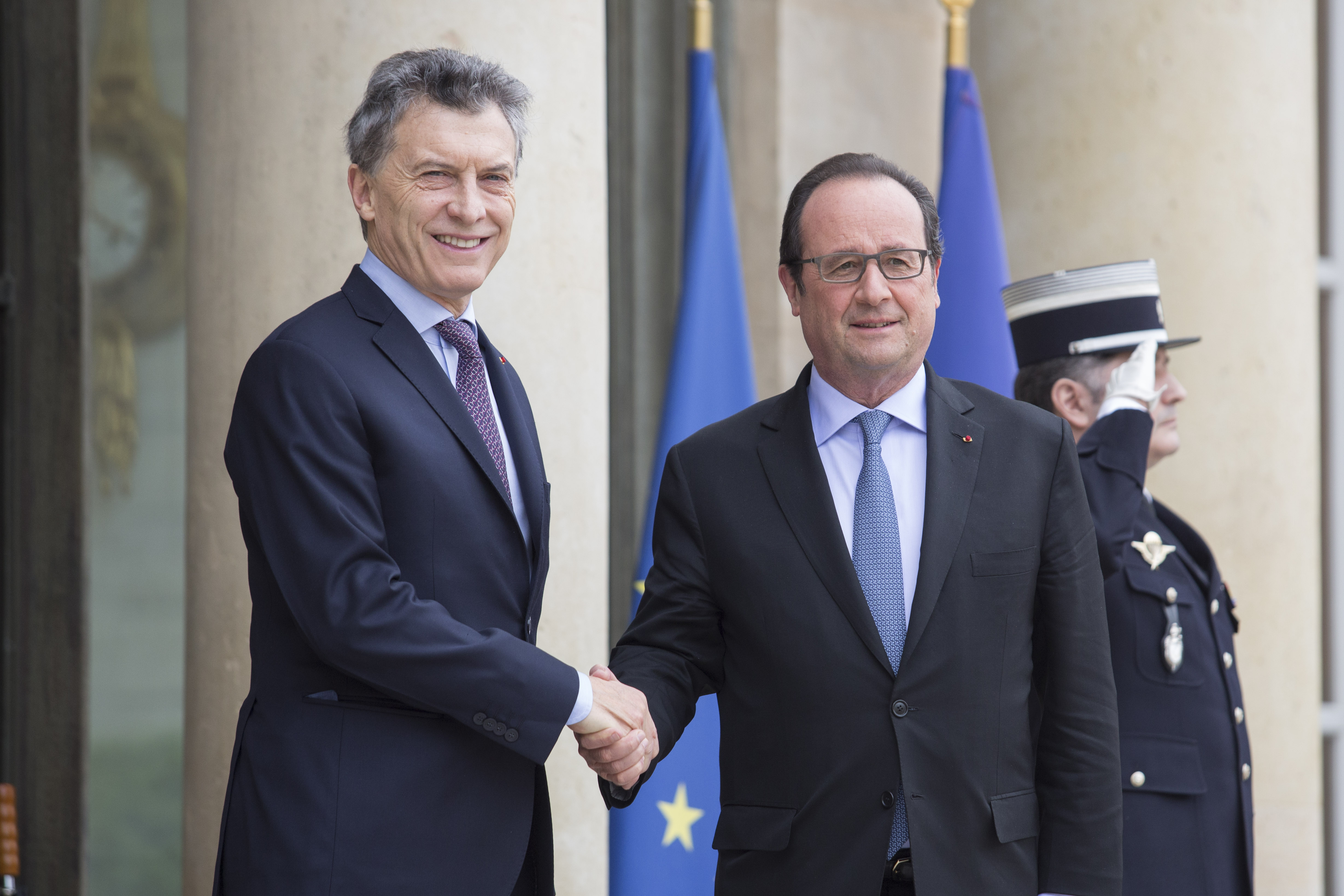 French President Francois Hollande (R) and Argentina's President Mauricio Macri (L) shake hands at the Elysee palace in Paris on July 2, 2016 ahead of their meeting.